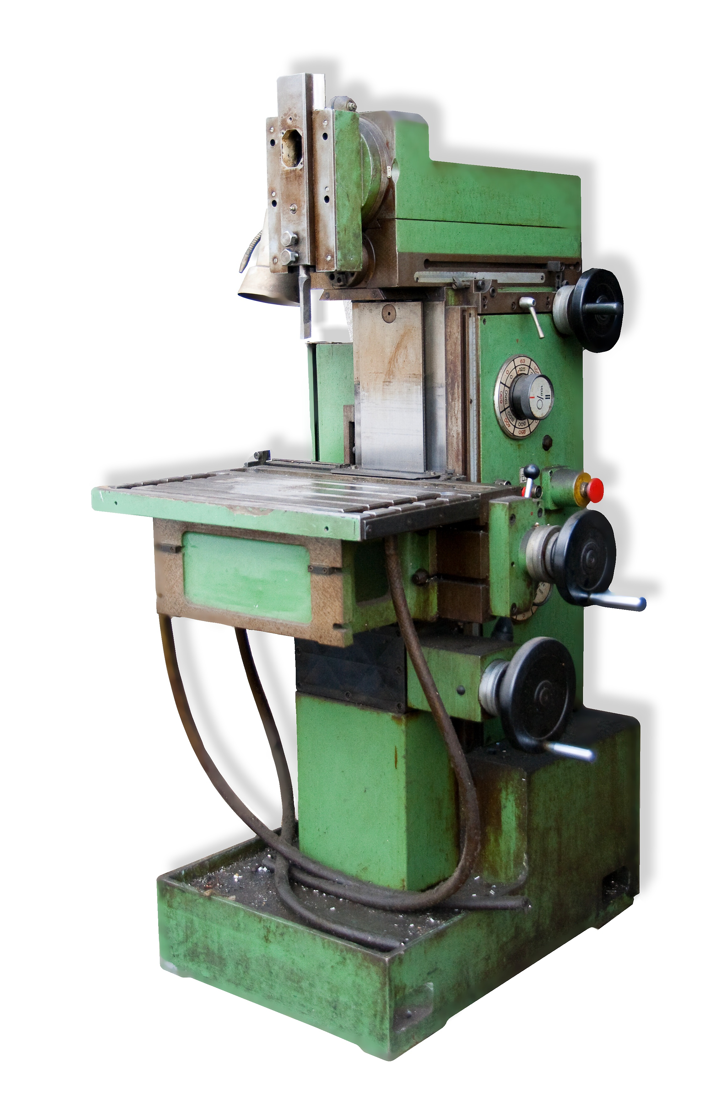 milling machine